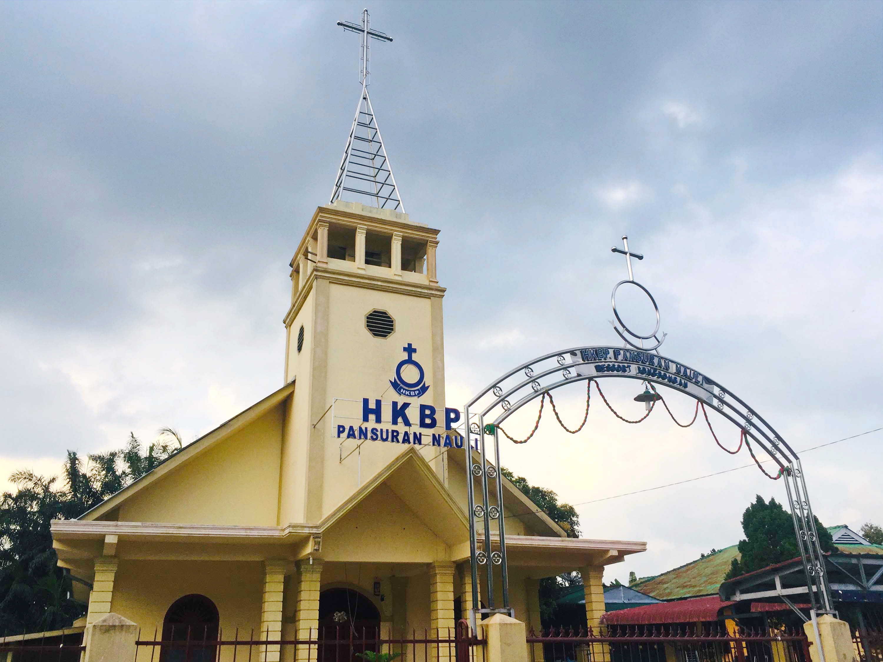 HKBP Pansuran Nauli, Res. Bongbongan Church in Siantar Martoba, Pematangsiantar